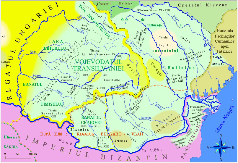 Since O. Drâmba & Asybaris01, modified in concordance with data from : Atlasul istorico-geografic, Academia Română, Bucharest 1995, ISBN 973-27-0500-0, Grigore Antipa, Delta Dunării și Marea Neagră, Academia Română, 1939 (shoreline in the past), G.I. Brătianu, Cercetări asupra Vicinei și Cetății-Albe, Univ. din Iași, 1935, Florin Constantiniu et al., Istoria lumii în date, ed. Enciclopedică, București 1971, Florin Curta, Southeastern Europe in the Middle Ages: 500-1250, Cambridge University Press 2006, ISBN 978-0-521-89452-4, Alexandru Filipașcu, Istoria Maramureșului, Bucharest 1940, 270 p., Petre Gâștescu, Romulus Știucă: Delta Dunării, CD-Press 2008, ISBN 978-973-1760-98-9 Invalid ISBN, Dinu Giurescu, Istoria ilustrată a Românilor, Sport-Turism, Bucharest 1981, pp. 72-121, Nicolae Iorga, Istoria românilor, Partea II, Vol. 2, Oameni ai pământului (before year 1000), Bucharest, 1936, 352 p. and Vol. 3, Ctitorii, Bucharest, 1937, 358 p., Thede Kahl, Rumänien: Raum und Bevölkerung, Geschichte und Gesichtsbilder, Kultur, Gesellschaft und Politik heute, Wirtschaft, Recht und Verfassung, Historische Regionen Gheorghe Postică, Civilizația veche românească din Moldova, Știința, Chișinău 1995, V. Spinei, The Romanians and the Turkic Nomads North of the Danube Delta from the Tenth to Mid-Thirteen Century, Brill 2009, Constantin-Mircea Ștefănescu, Nouvelles contributions à l’étude de la formation et de l’évolution du delta du Danube (shoreline in the past), Paris, Bibliothèque nationale, 1981, George Vâlsan: Opere Alese (dir.: Tiberiu Morariu), Ed. științifică, București 1971.